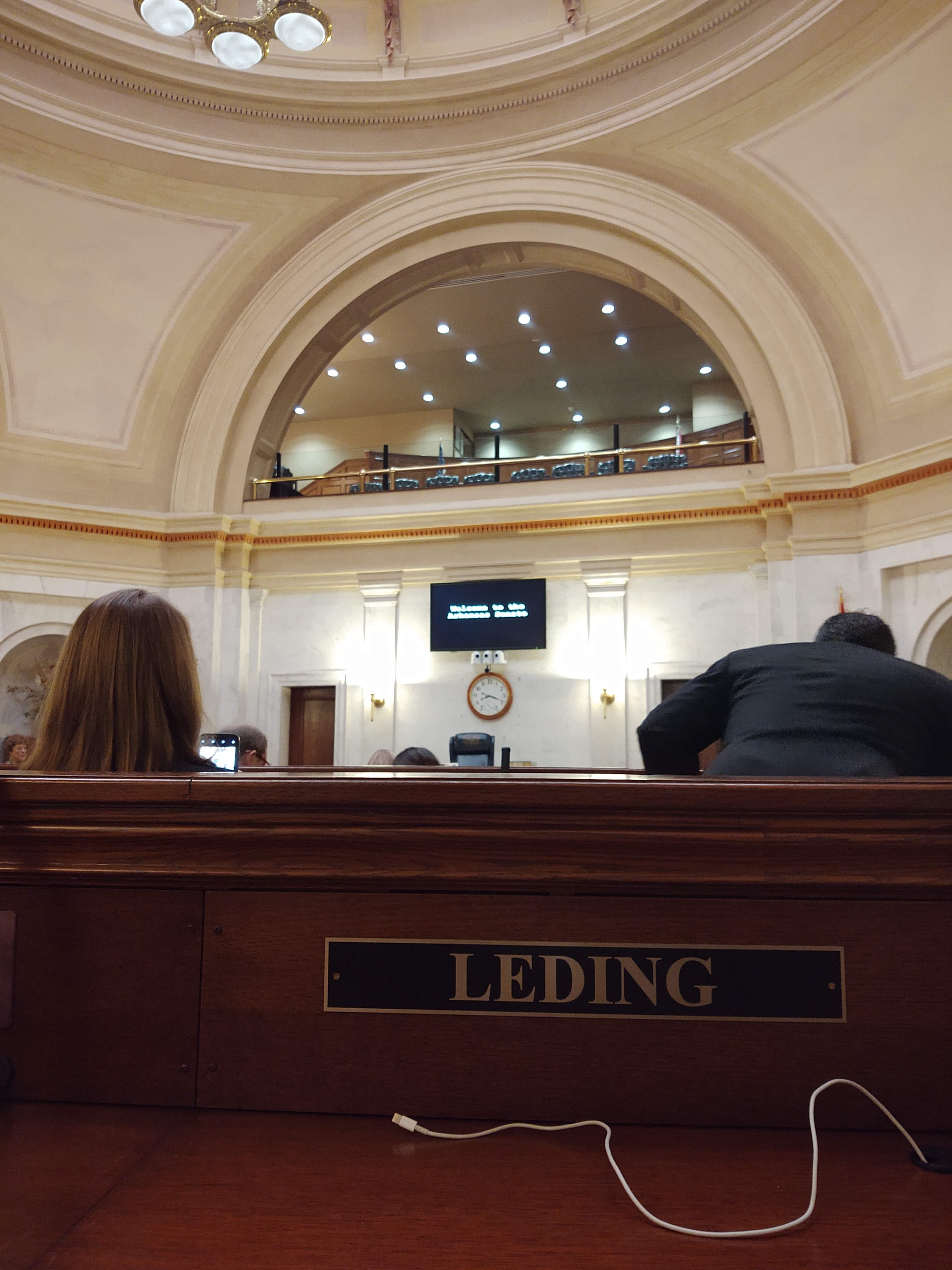 Sitting in Senator Greg Leding's seat in the Arkansas Senate within the Arkansas State Capitol